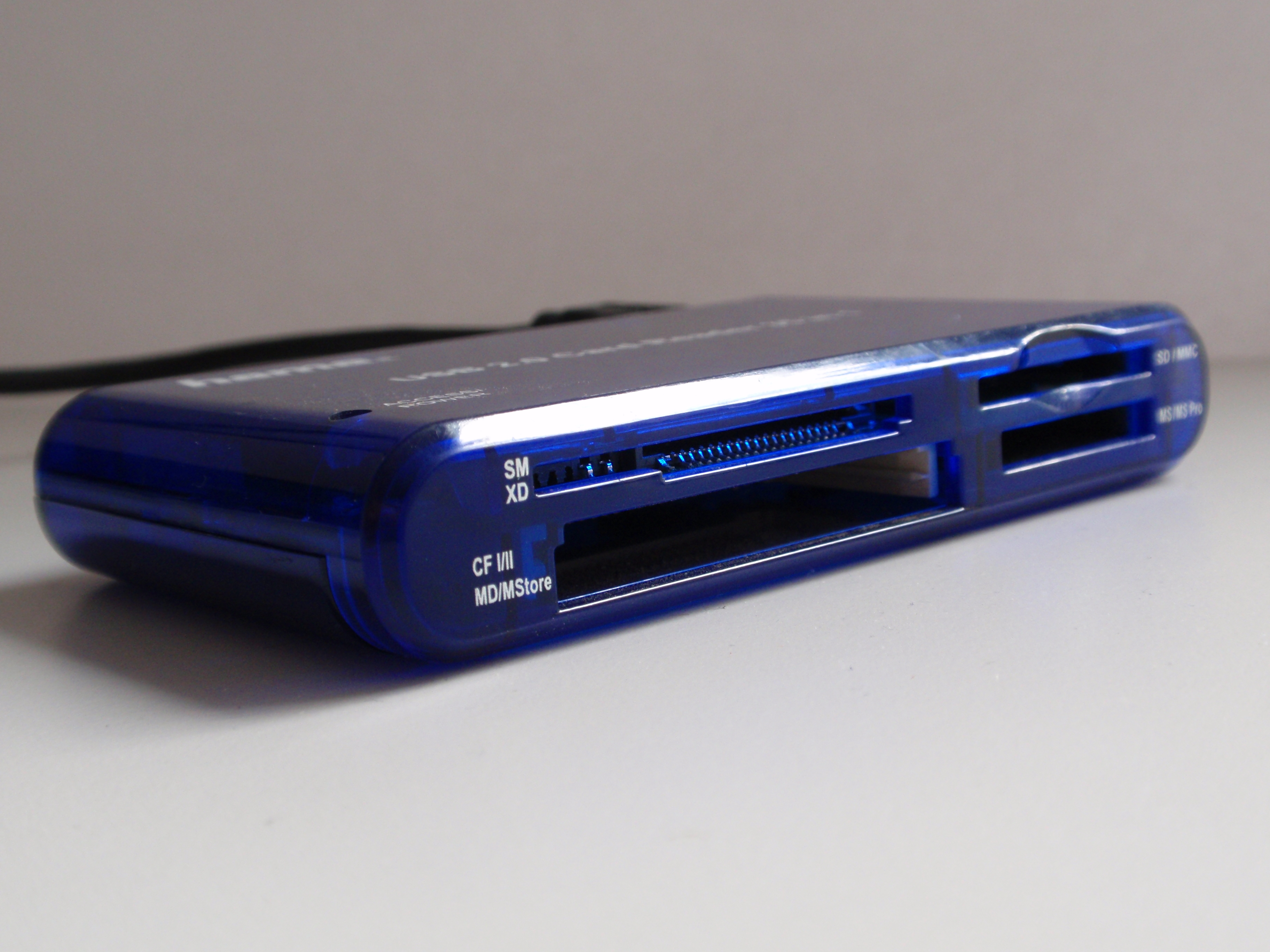 card reader